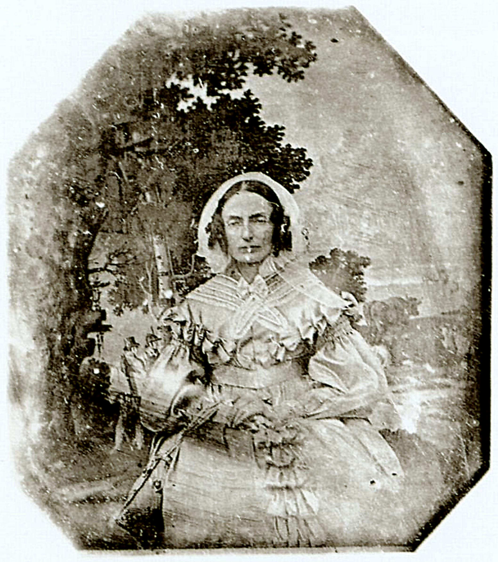 Daguerreotype of a old Woman in front of a tapestry.